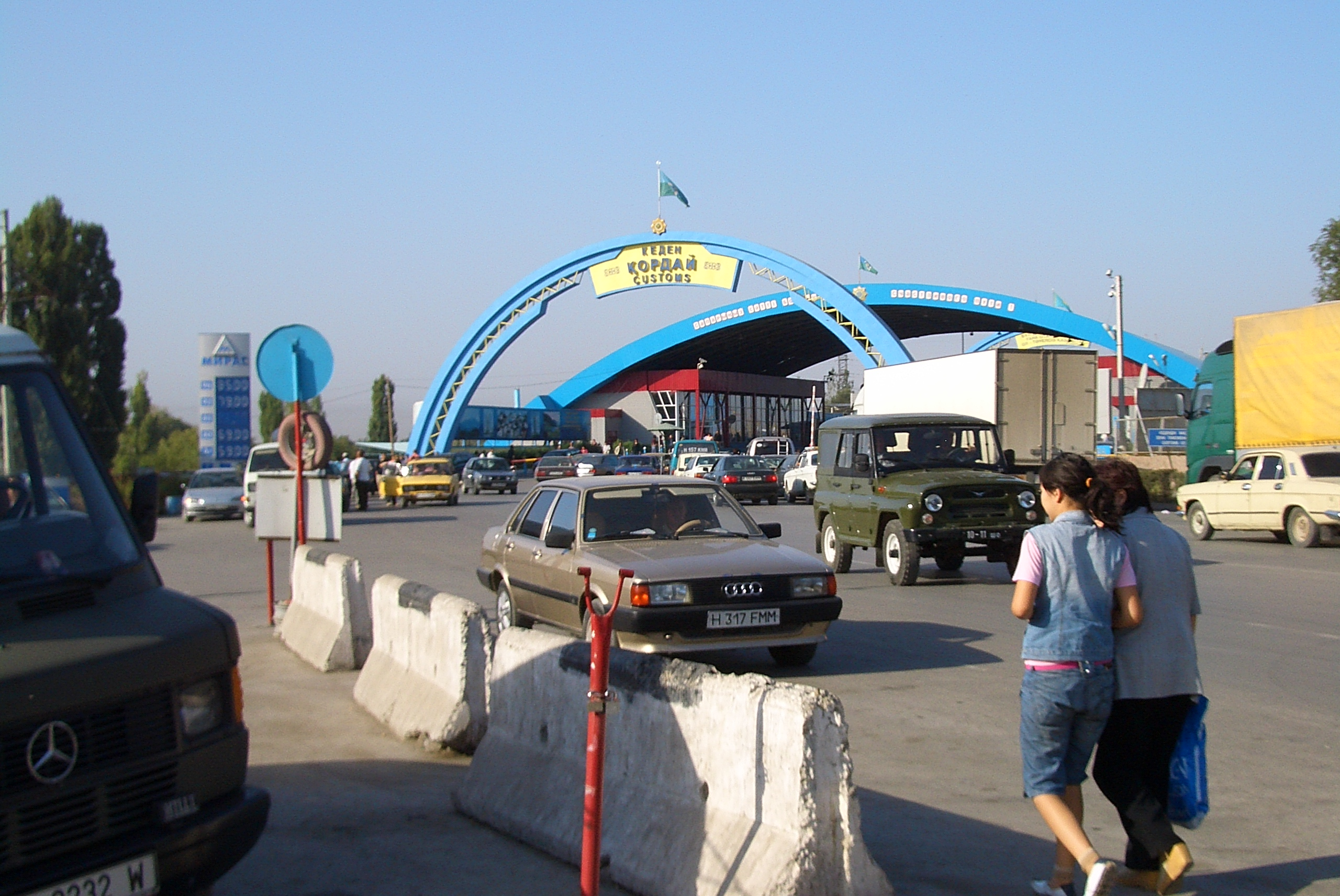 Kazakhstan's front gate at Korday border crossing.